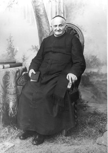 Portrait photography of Arnold Janssen (1837-1909)